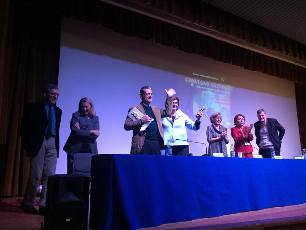 Vittorio Lingiardi, psychiatrist and psychoanalyst, full professor of dynamic psychology at the Sapienza University of Rome and co-editor, with Nancy McWilliams, of the PDM-2 Psychodynamic Diagnostic Manual, is awarded with the 2018 Cesare Musatti Award of the Italian Psychoanalytic Association (SPI). On the SPI website you can read his acceptance speech during the award ceremony, held in Rome on 25 November 2018.